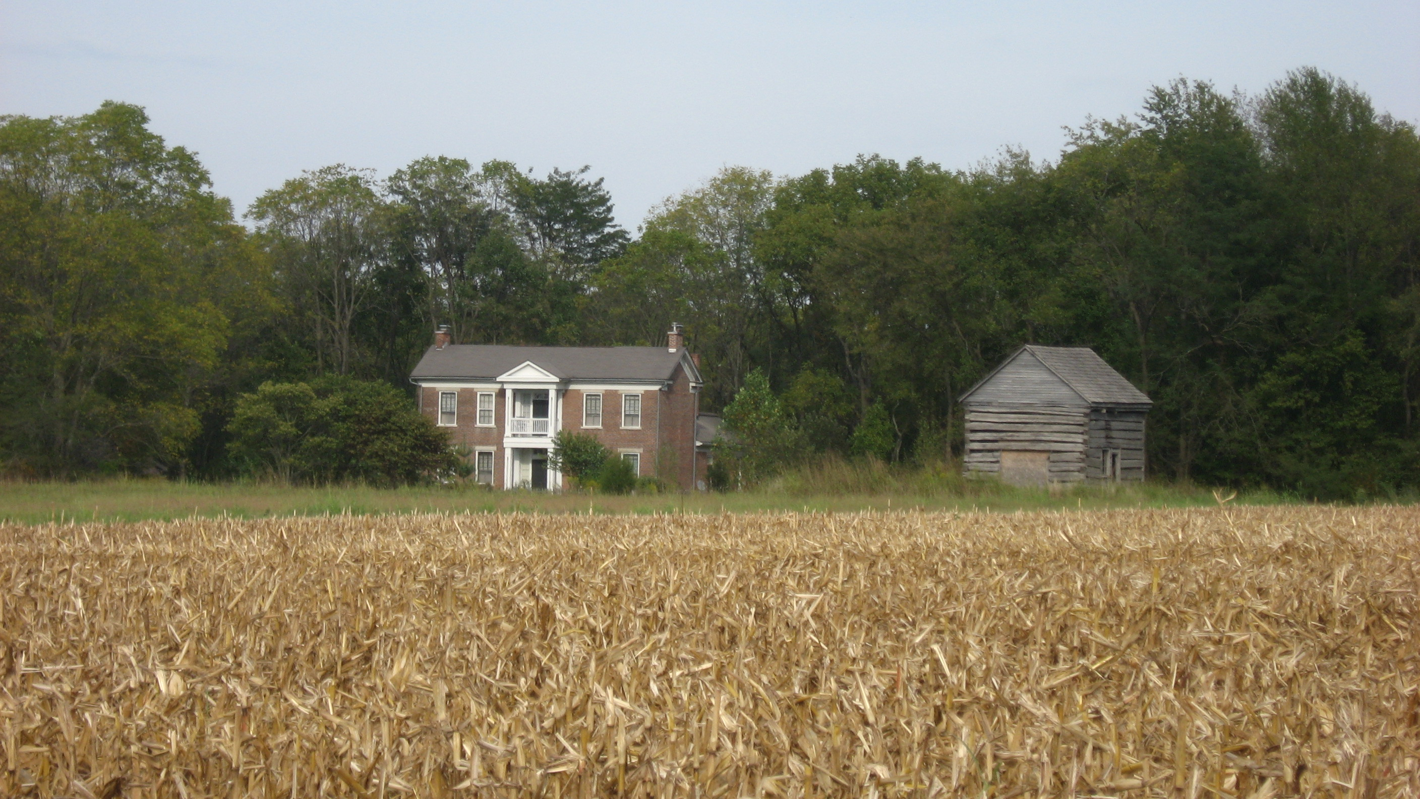 Roadside view of the Secrest-Wampler House and an associated log cabin, located at 1816 Concord Road southwest of Gosport in Washington Township, Owen County, Indiana, United States. Built in 1859, it is listed on the National Register of Historic Places.